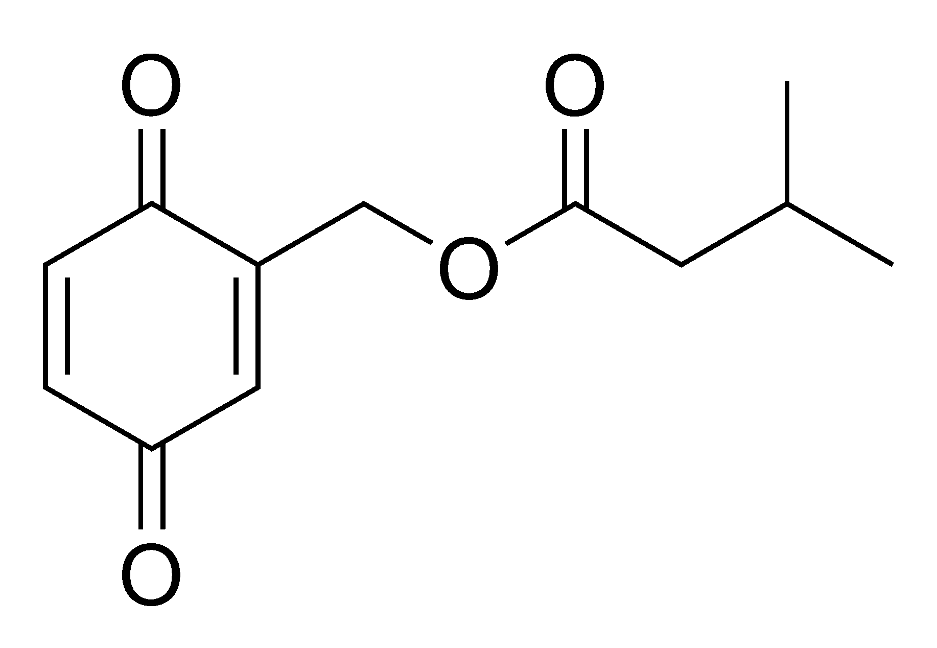 Chemical structure of blattellaquinone